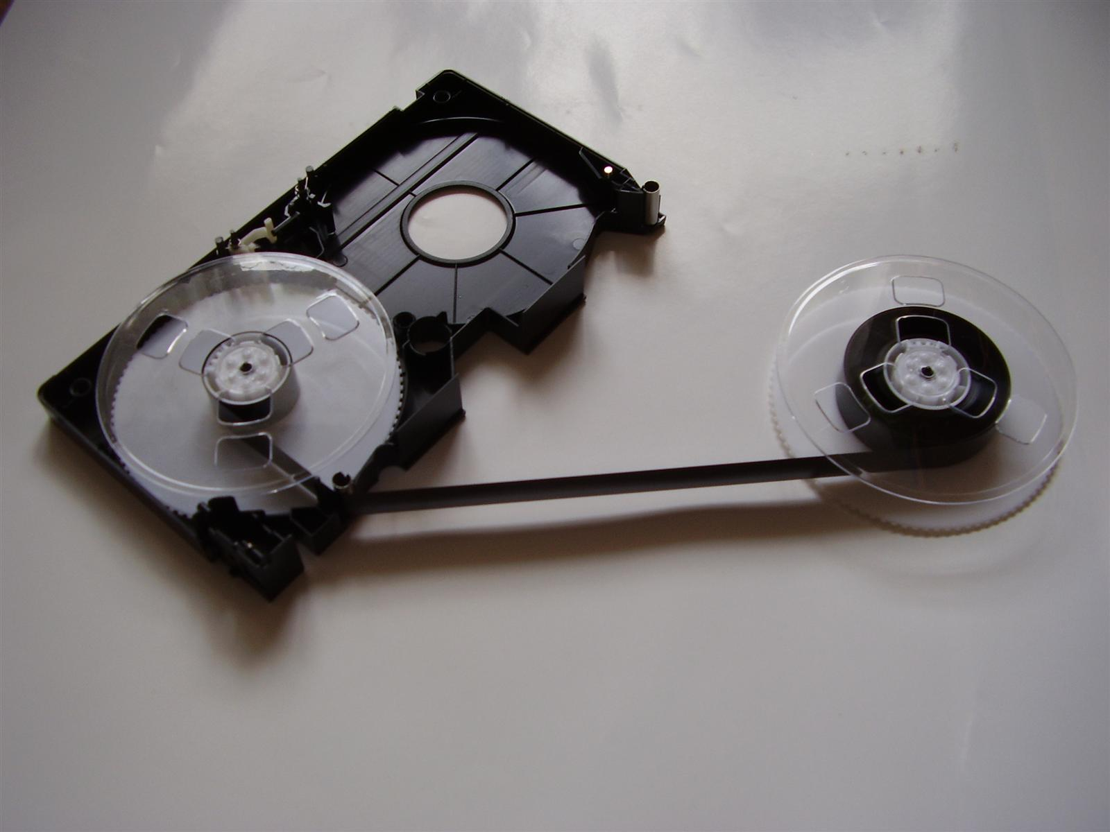 Inside of VHS Cassette